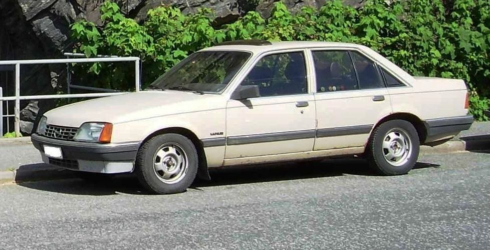 Opel Rekord E2